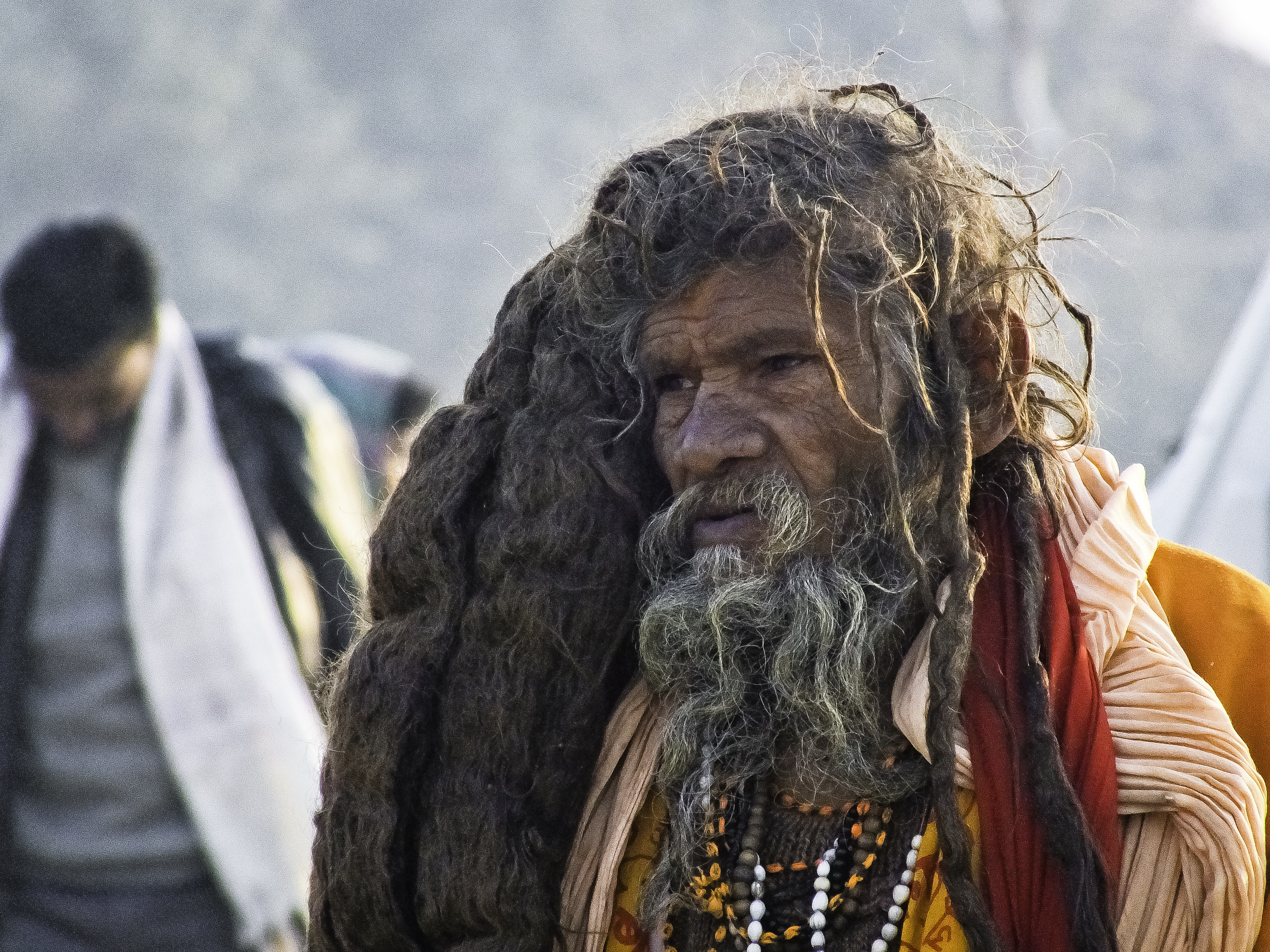 To attain salvation, one needs a guru (teacher). If be the teacher is truth, nothing else is required. This has been practically illustrated by a saint.. Mahant Rudra Giri (changed name). Talking to the Mahant revealed a lot. Why a name change is required? When we start to walk on path of nirvana, we have to leave our past behind. Carrying it will never lead us to nirvana as it would always attract us to be the part of the society. Hence, the first thing what is done is to change the name to get a new identity which is called punarjanm (reincarnation). What else do a reincarnation requires? A reincarnation requires to repay what all we owe to our family. Though we can never repay it, still in Hindu mythology, it's said that one can repay what all he ows of his family by performing after cremation rituals (pind daan). Hence, next stage is to perform this ritual which is a very tough job for the one whose family still exists. The most tough part appears when he himself has to do his own pind daan at the same time, which mythologicaly proves that the person is dead hence the new life thereafter treated as his reincarnation. To be cont in upcoming posts... © Fotografia da Blåçk Pærl